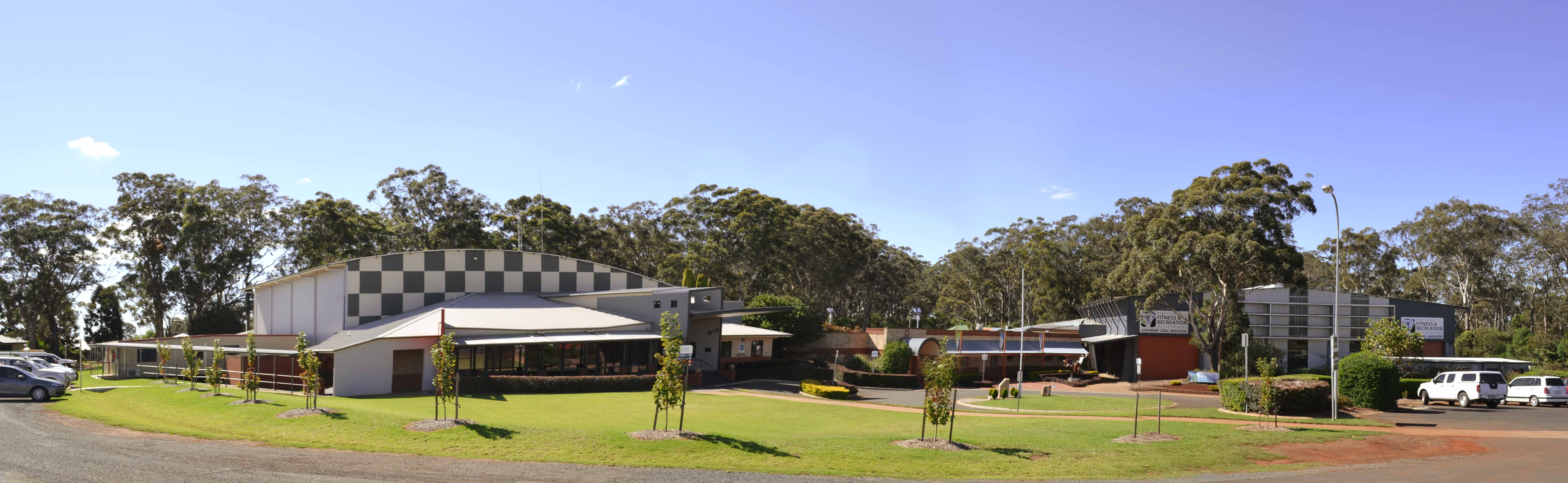 Cultural Centre, Highfields, Queensland